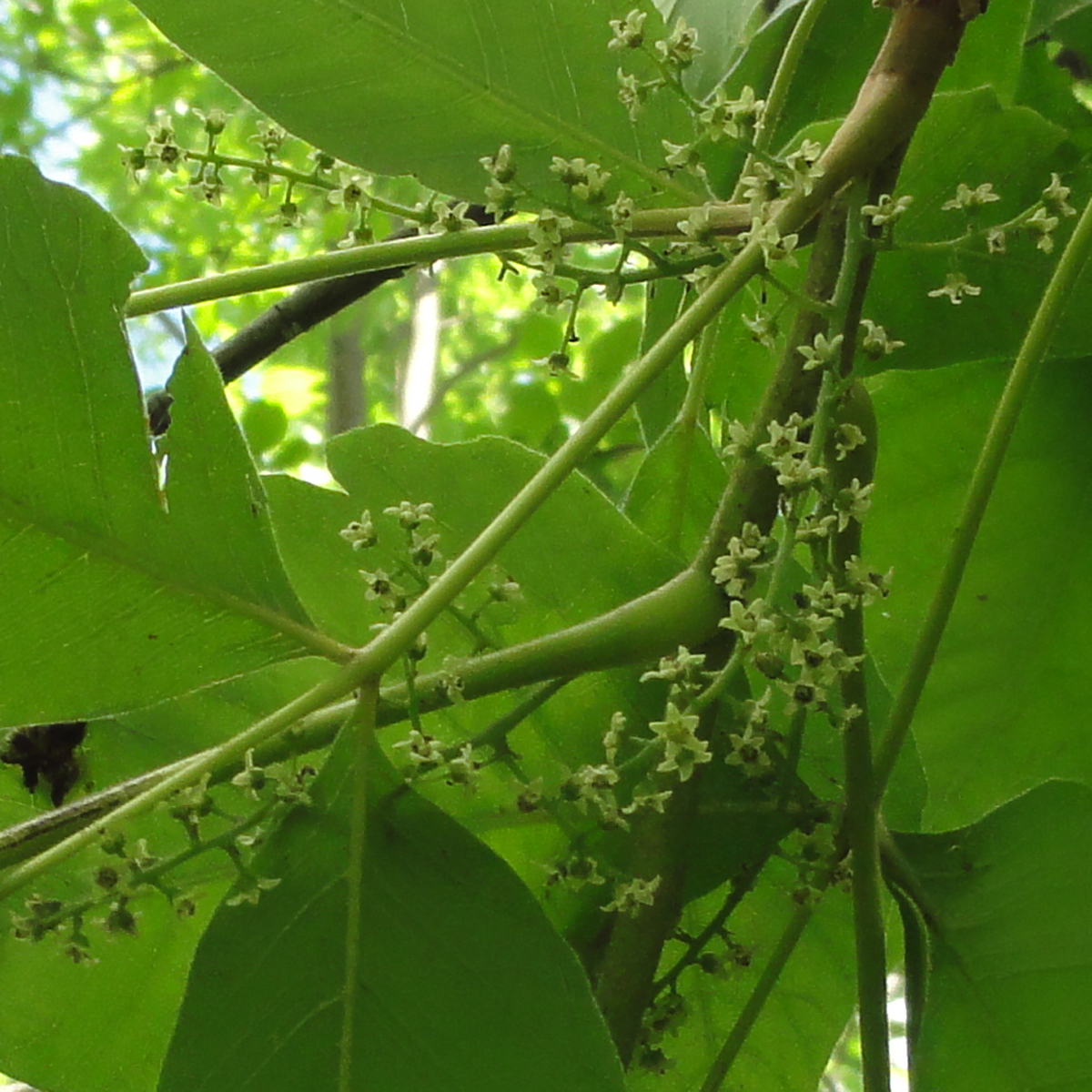 Toxicodendron radicans (poison ivy) flowers